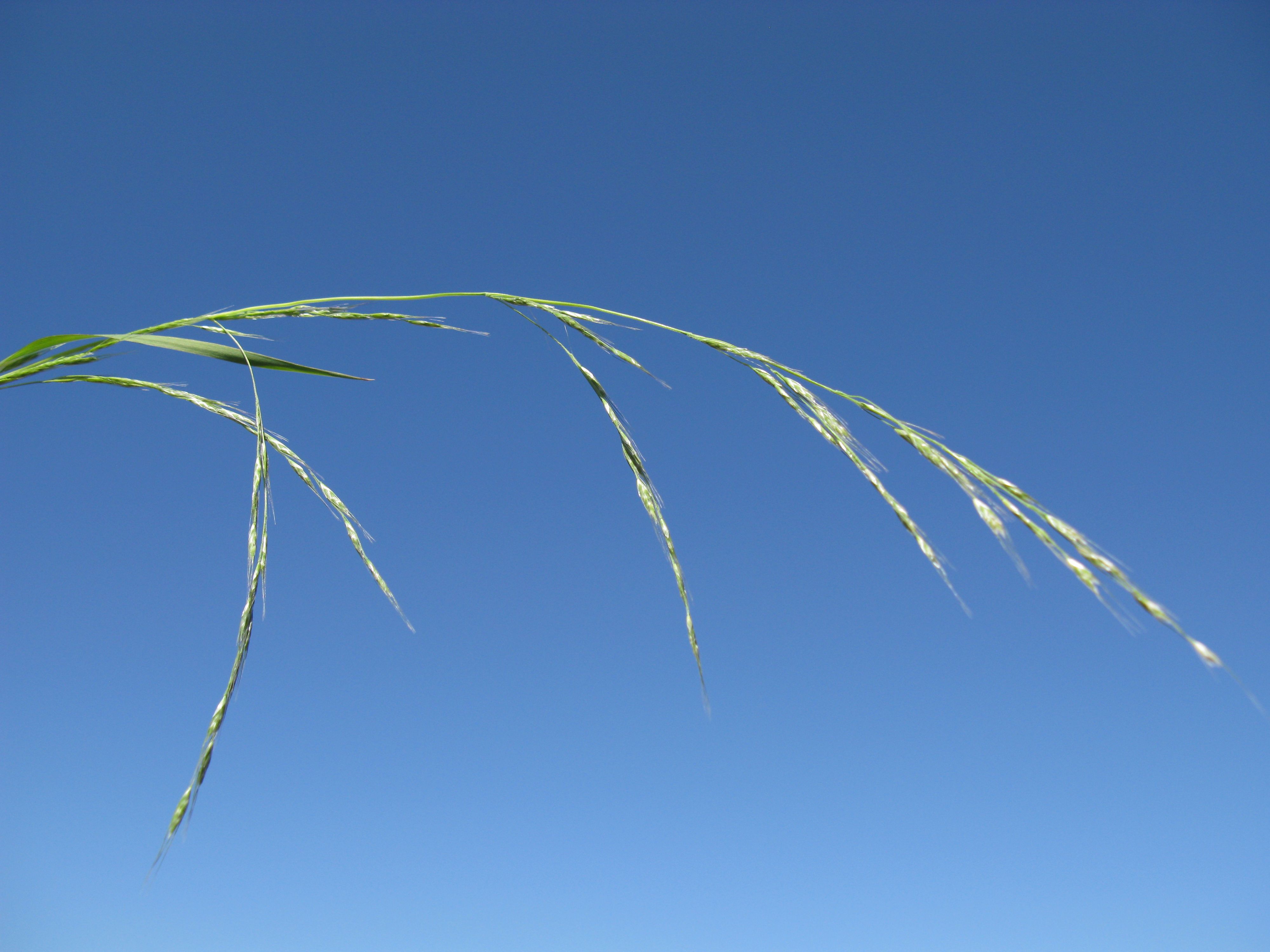 Flowerheads are slender, erect panicles 20-50 cm long.